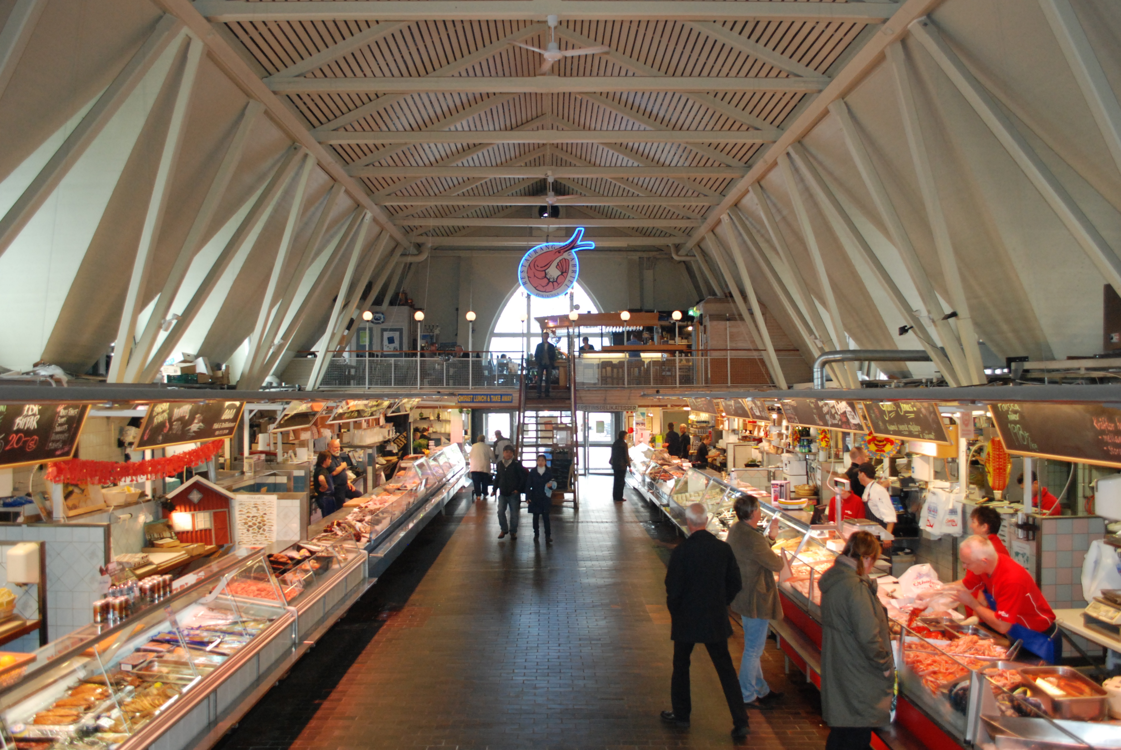 Feskekôrka